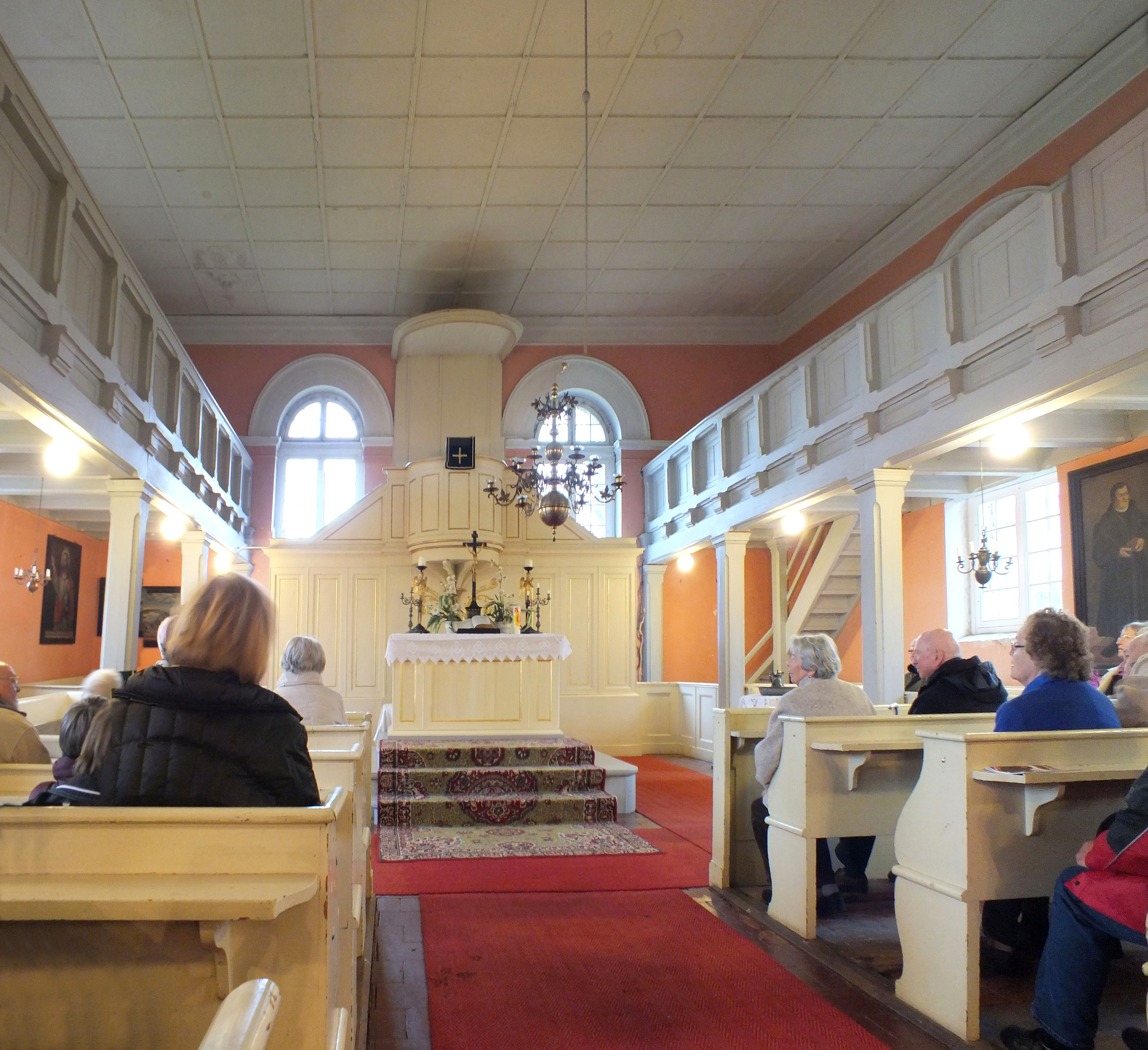 Wuthenow Kirche